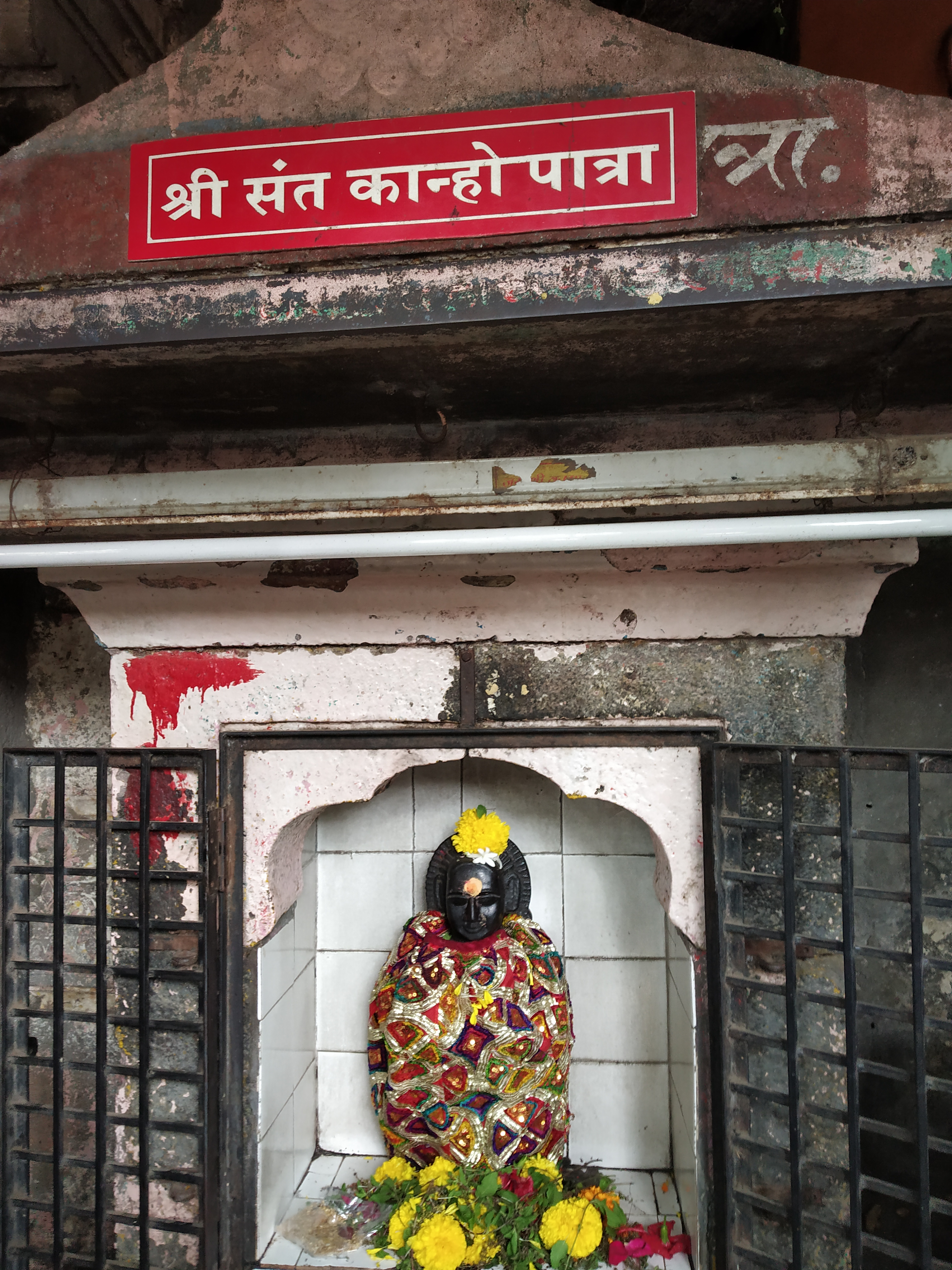 Sant Kanhopatra was a 15th-century Marathi saint-poet, venerated by the Varkari sect of Hinduism.